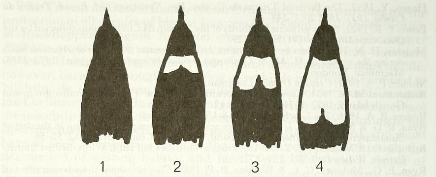 Black = black, white = red 1. Female of Malimbus cassini 2. Female of M. ibadanensis 3. Male of M. cassini 4. Male of M. ibadanensis